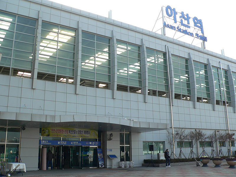 KORAIL Janghang Line Asan Station